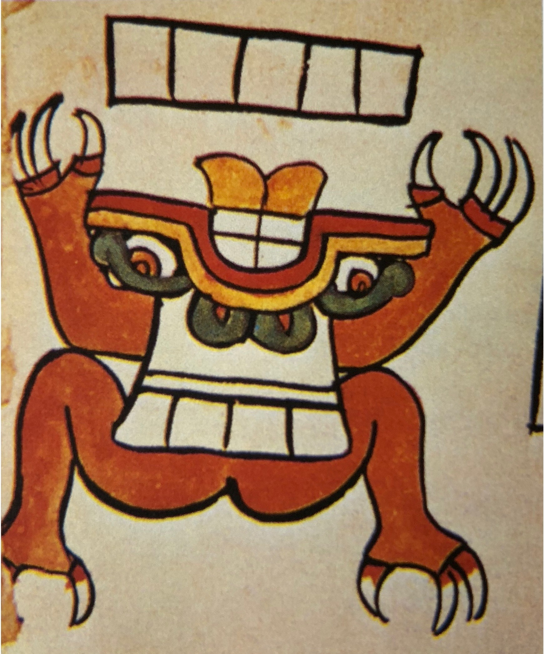 Tlaltecuhtli depiction found in Codex Tudela